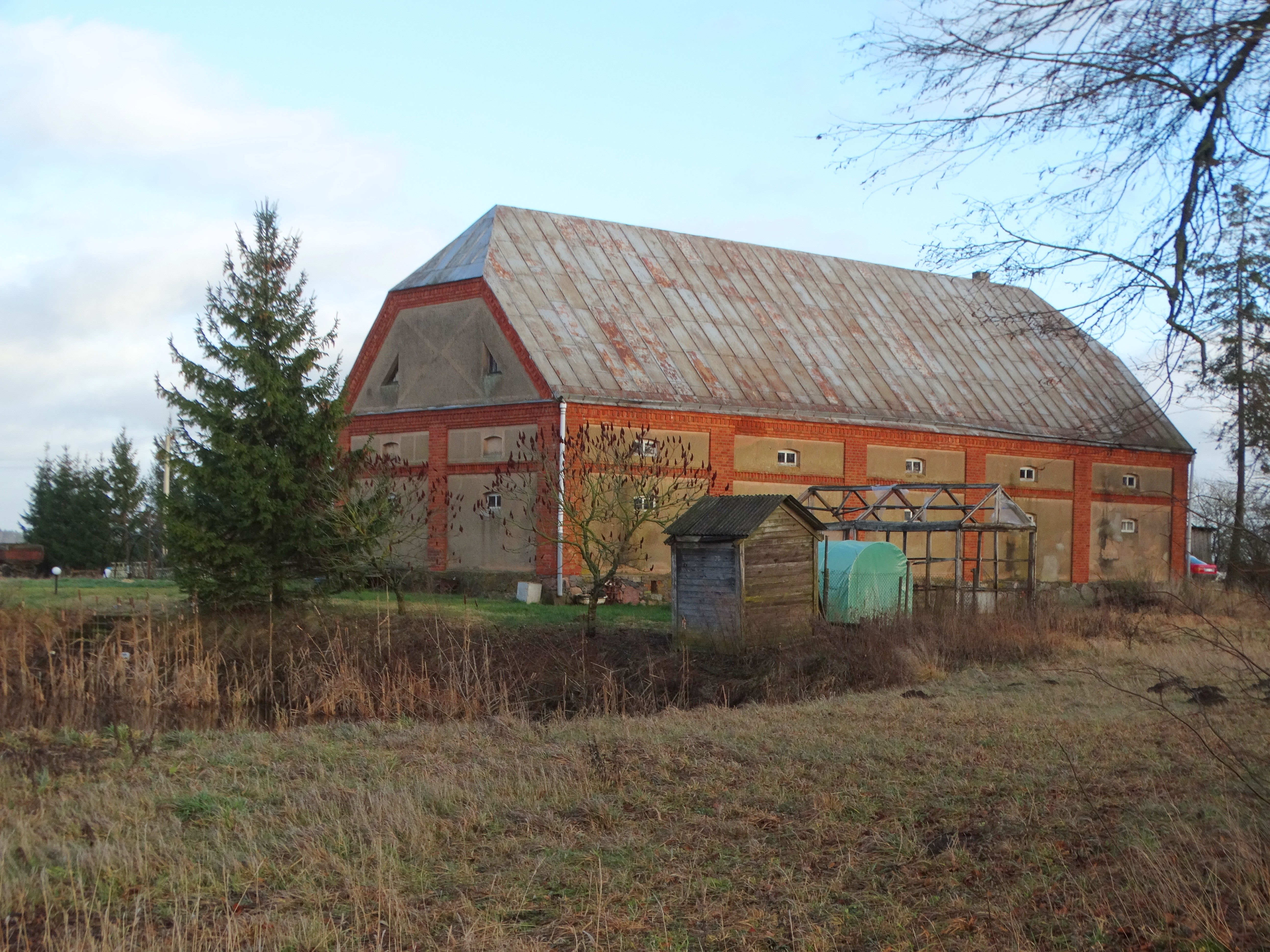 Taukadažiai, former manor, Jonava District, Lithuania